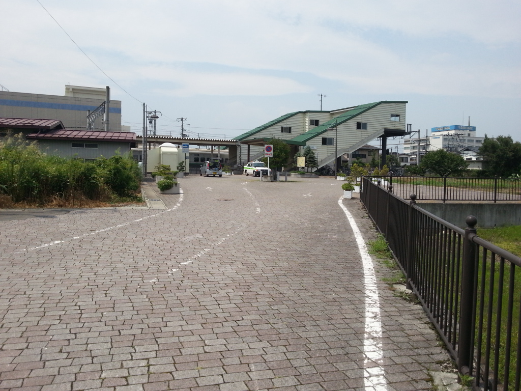 The approach to Uzenchitose Station. Yamagata.